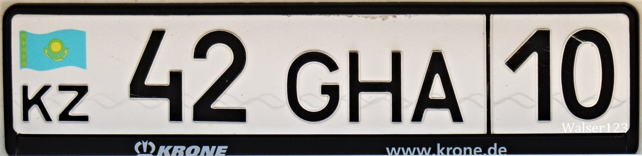 Kazakhstan trailer license plate 2012